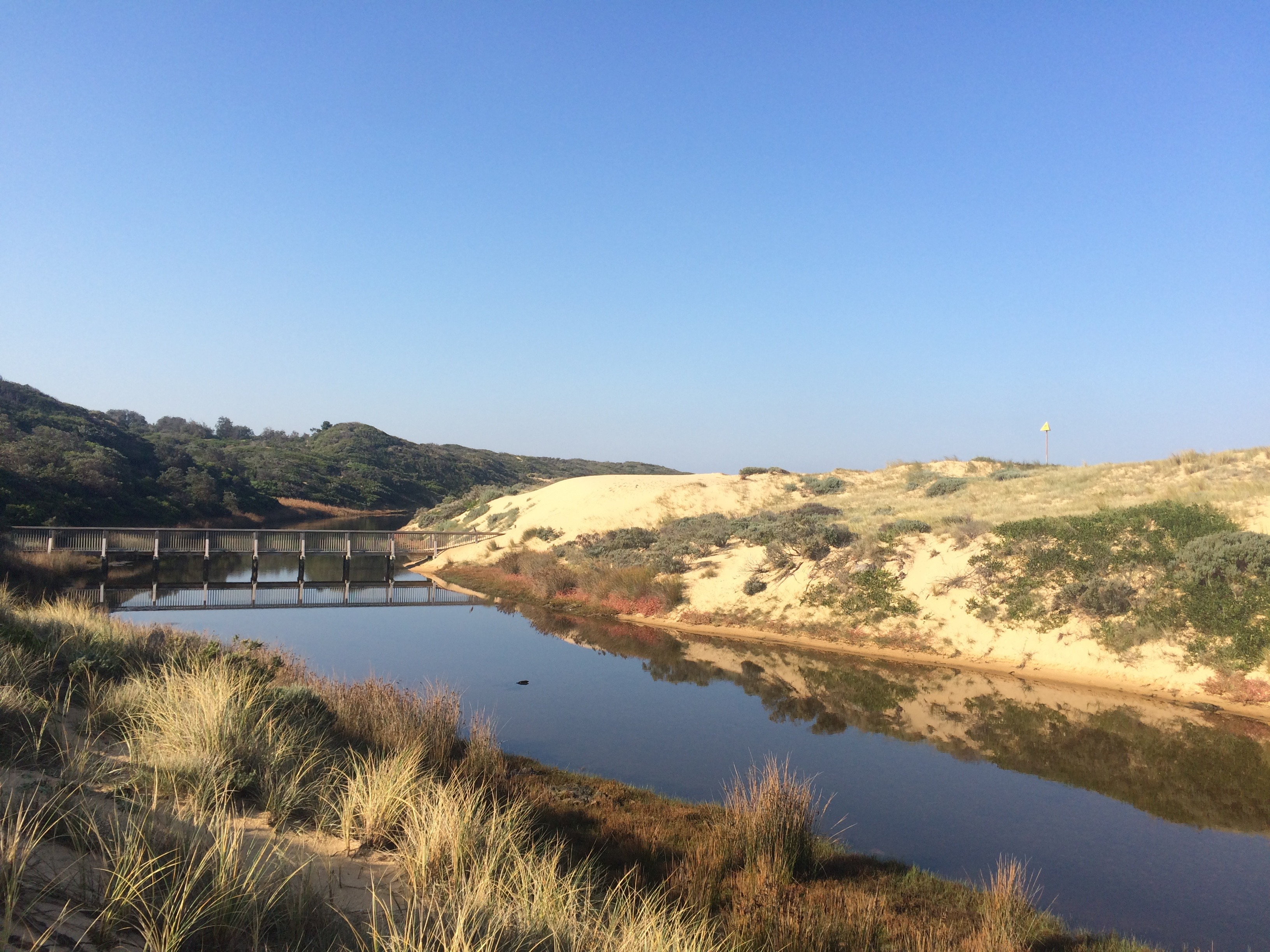 Photo of the Wreck Creek bridge taken from the sand dunes behind Wreck Beach